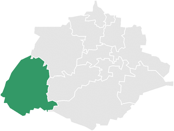 Map of the Municipalty of Calvillo in the State of Aguascalientes, México.